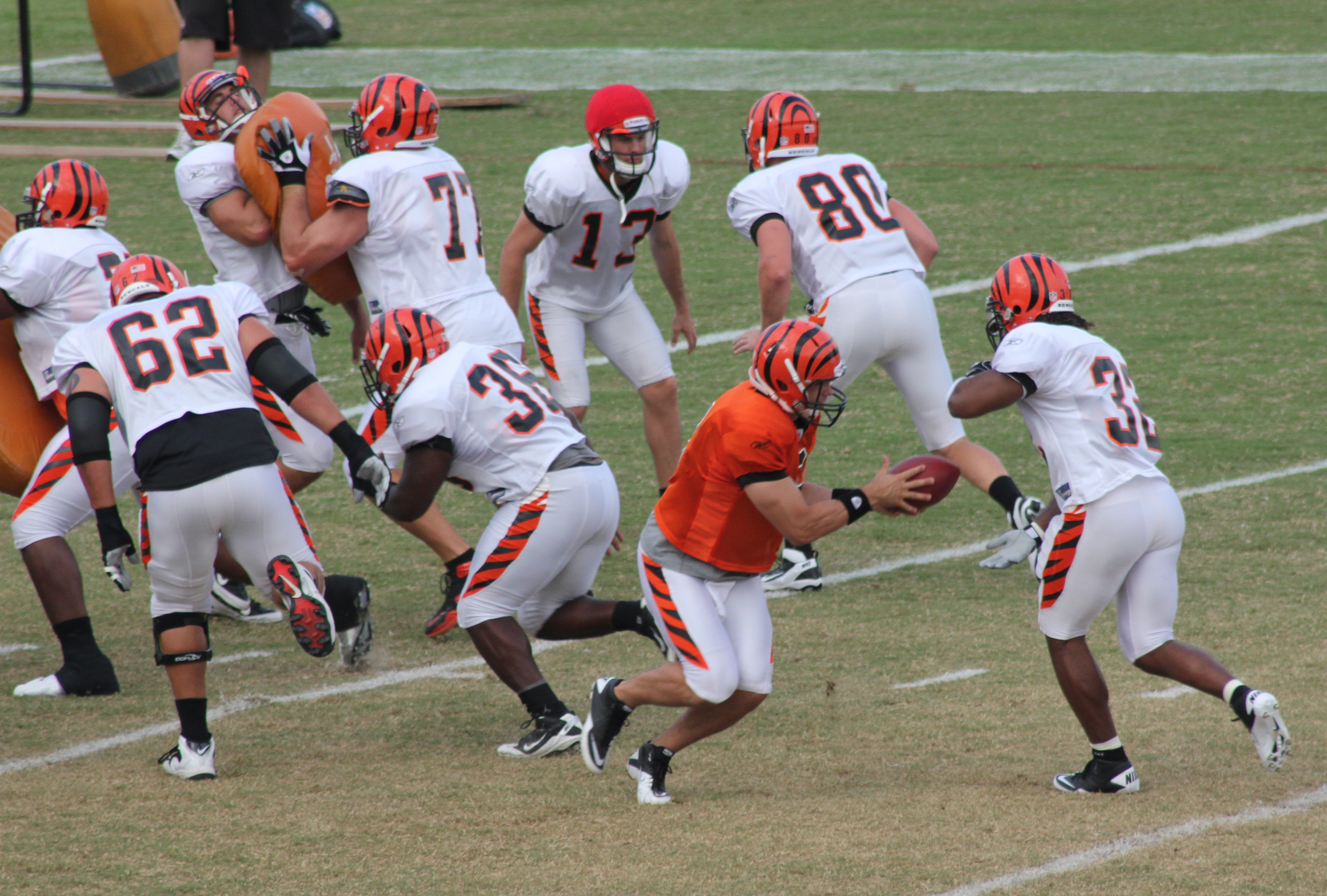 Cincinncati Bengals Camp August 6, 2011